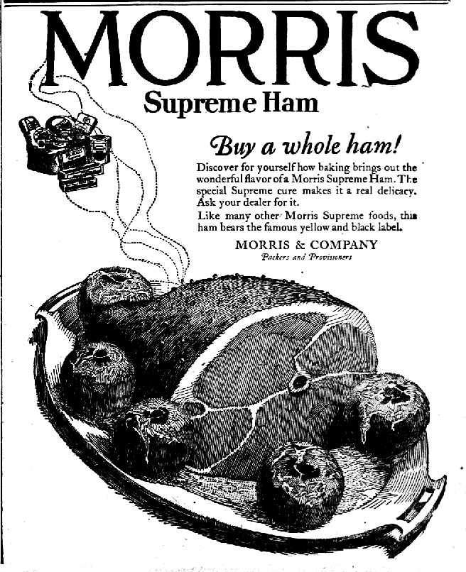 1922 newspaper ad for Morris Supreme Ham, from the Morris and Co. meat packers.